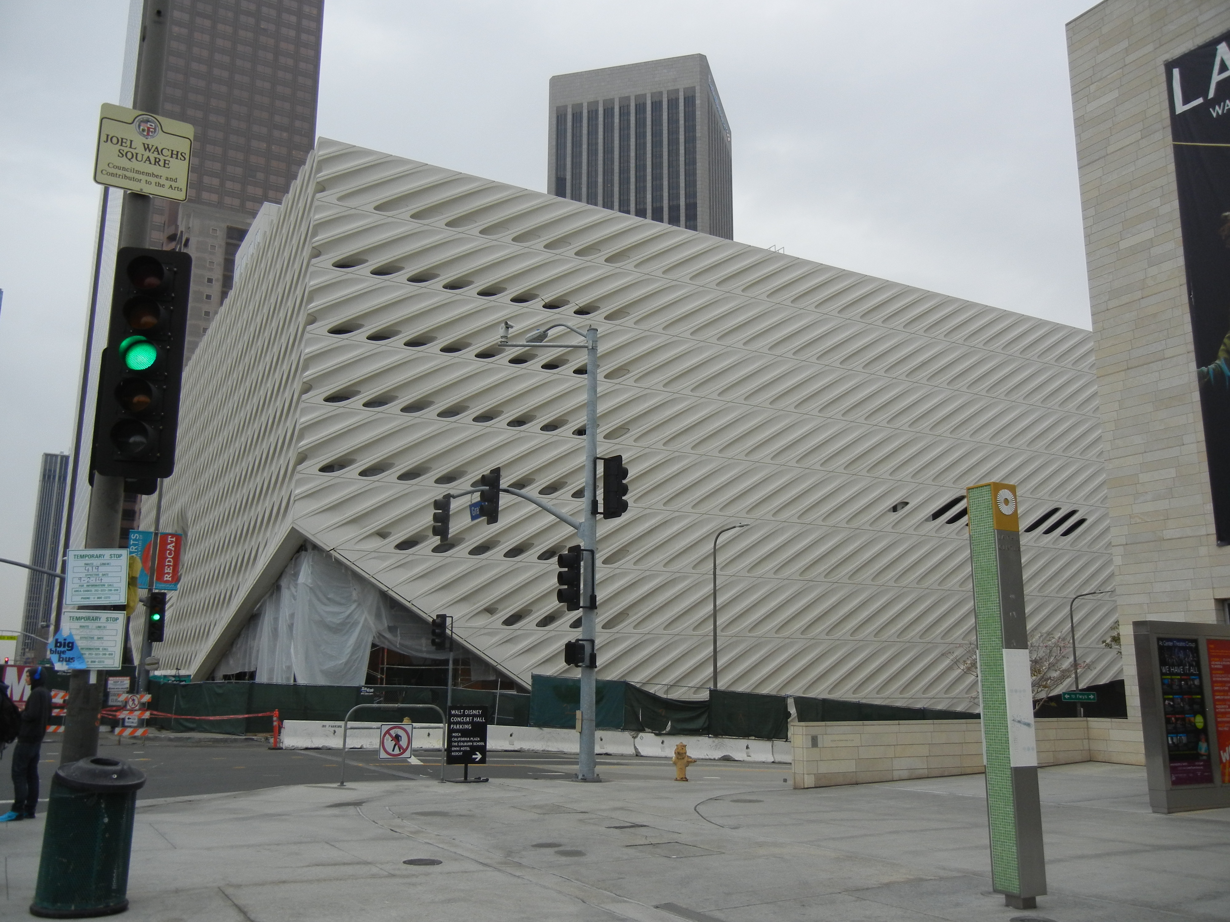 Broad Museum in downtown Los Angeles, under construction